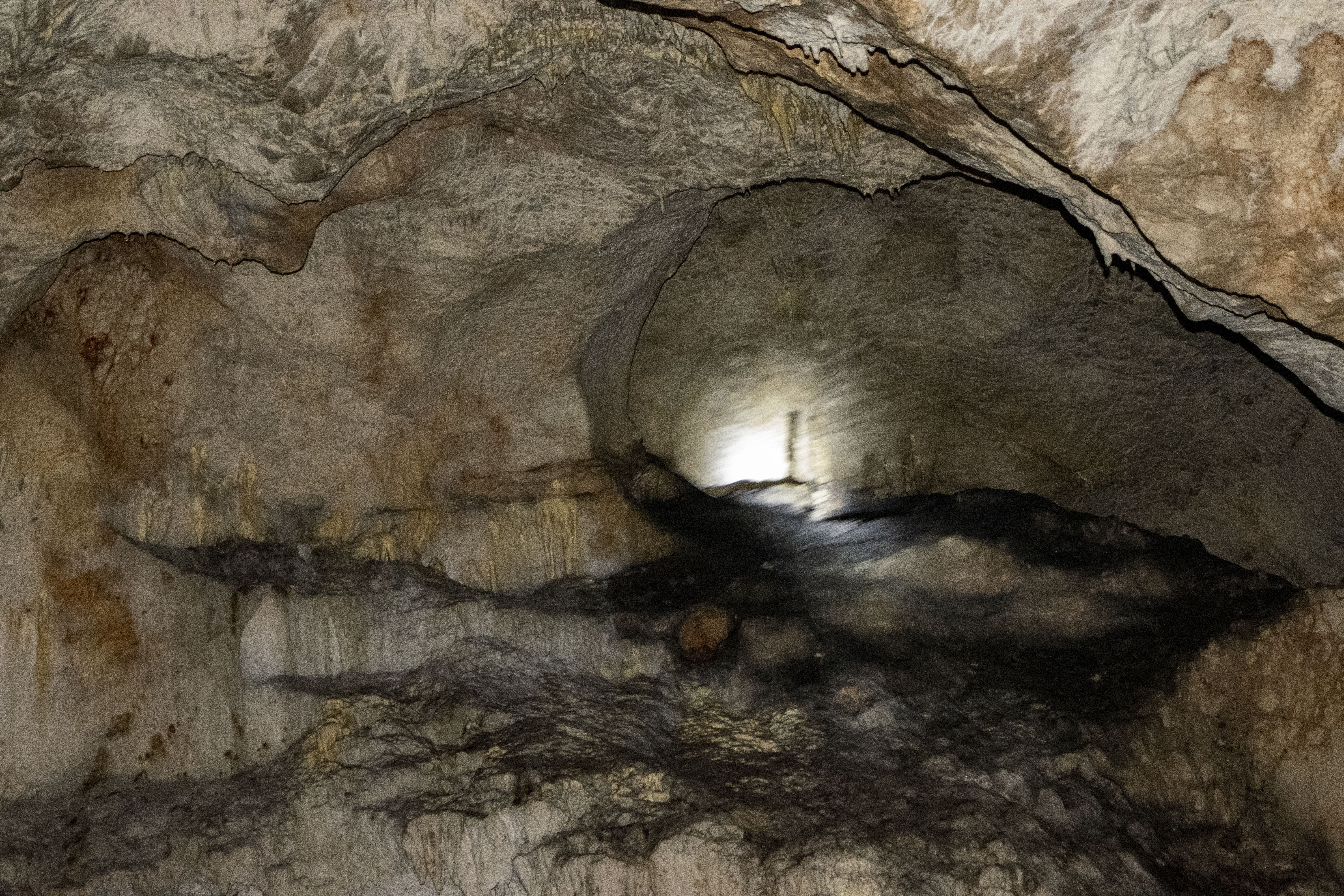 Photograph of the interior of a cave in the municipal regional park Actun Can Caves, Guatemala.